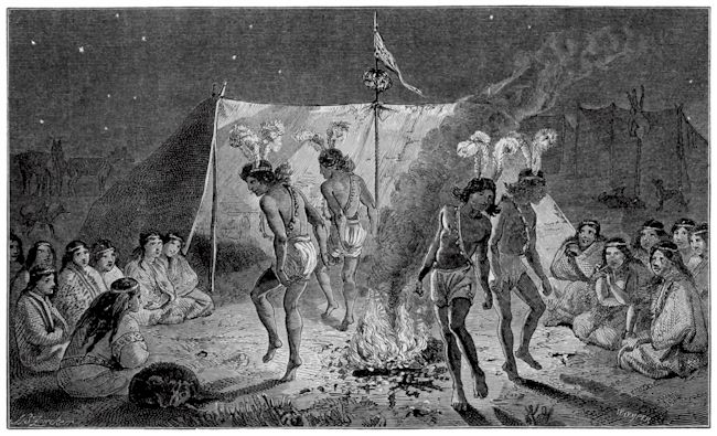 On the birth of a child by the Tehuelches, if the parents are rich, i.e. own plenty of mares and horses, and silver ornaments, notice is immediately given to the doctor or wizard of the tribe, and to the cacique and relations. The doctor, after bleeding himself with bodkins in the temple, fore-arm, or leg, gives the order for the erection of a mandil tent, or pretty house as the Indians call it, and mares are slaughtered, and a feast and dance follow, as having taken place in the valley of the Rio Chico.